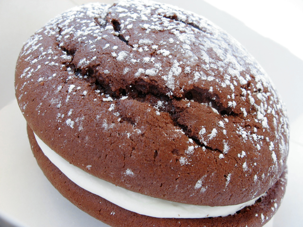 Whoopie pie with dusting of confectioner's sugar.